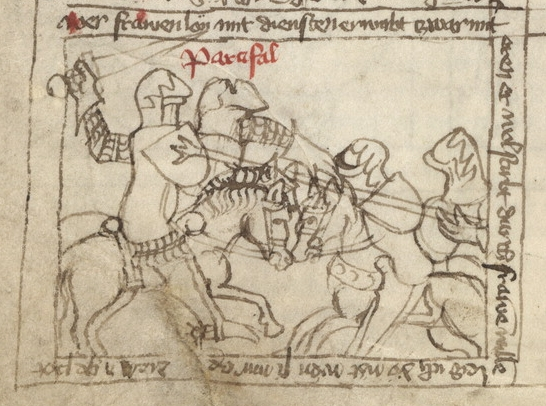 Parzival-Darstellung Washington (D.C.), Libr. of Congress, Rosenwald Collection, Ms. 3, Bl. 6v